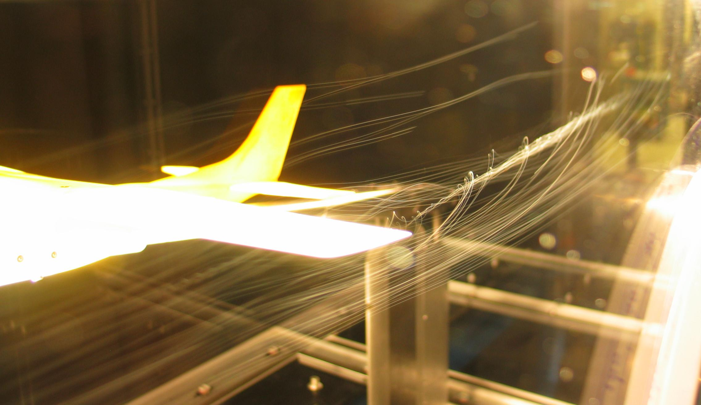 A wind tunnel model of a Cessna 182 showing a wingtip vortex. Tested in the RPI (Rensselaer Polytechnic Institute) Subsonic Wind Tunnel.